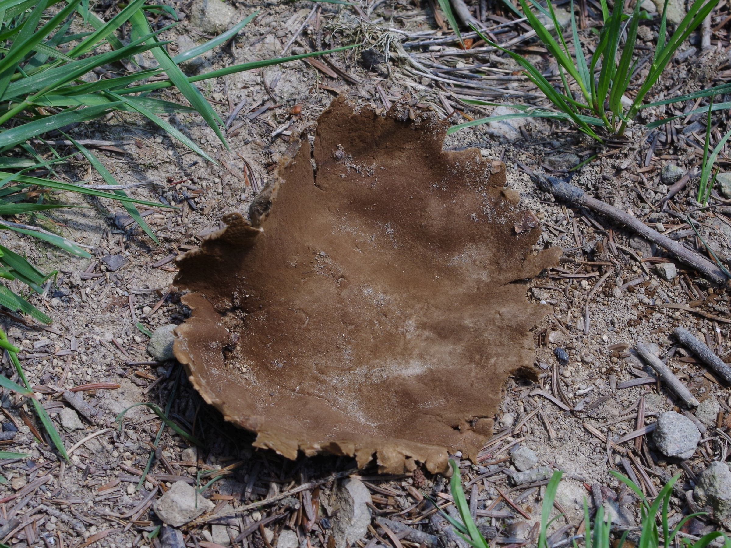 Lycoperdon utriforme (location: Poland, Beskid Mały, Smrekowica)